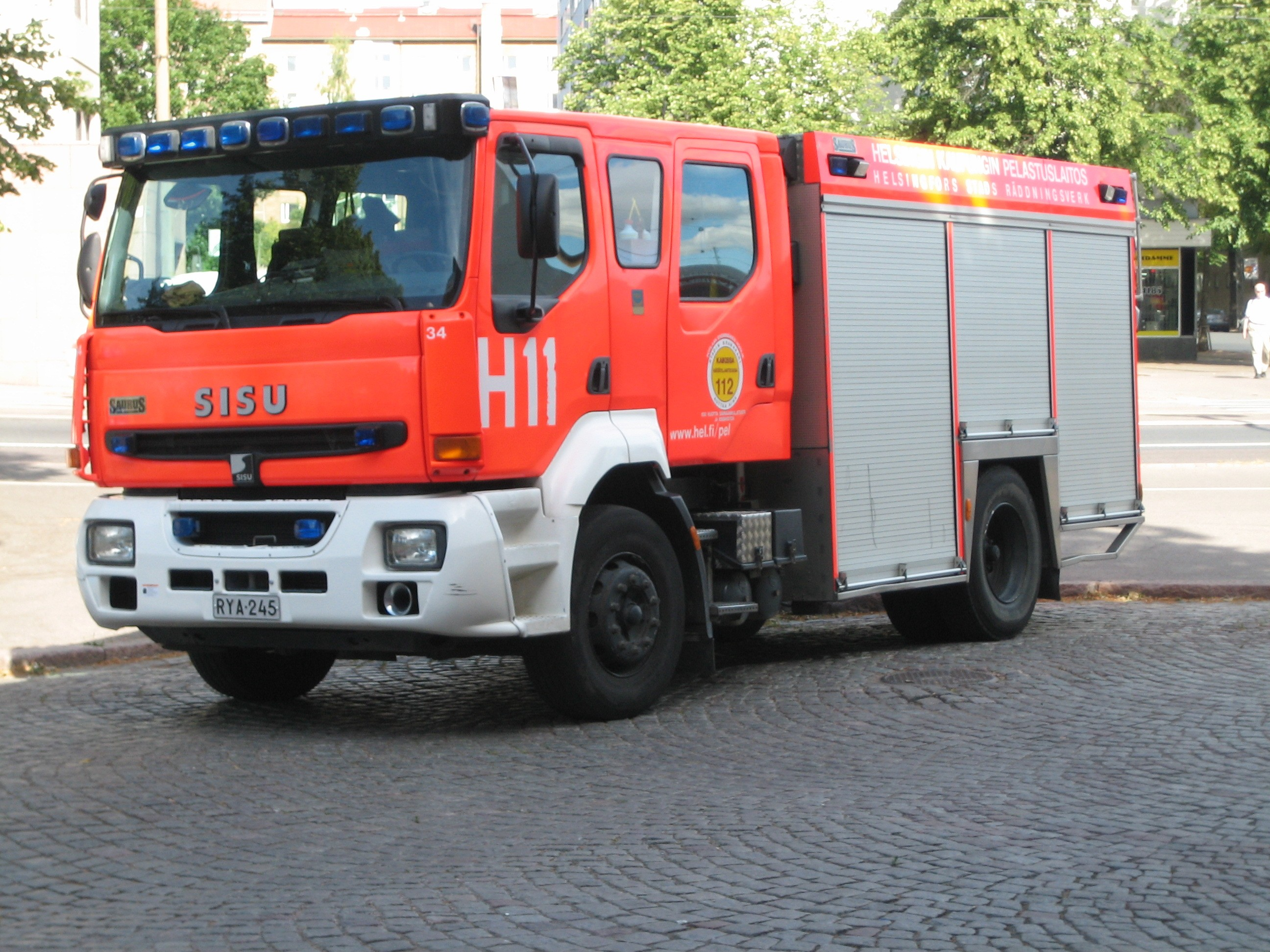 Helsinki H11 fire engine. The vehicle is Sisu E11 340 4×2 with a Cummins engine.